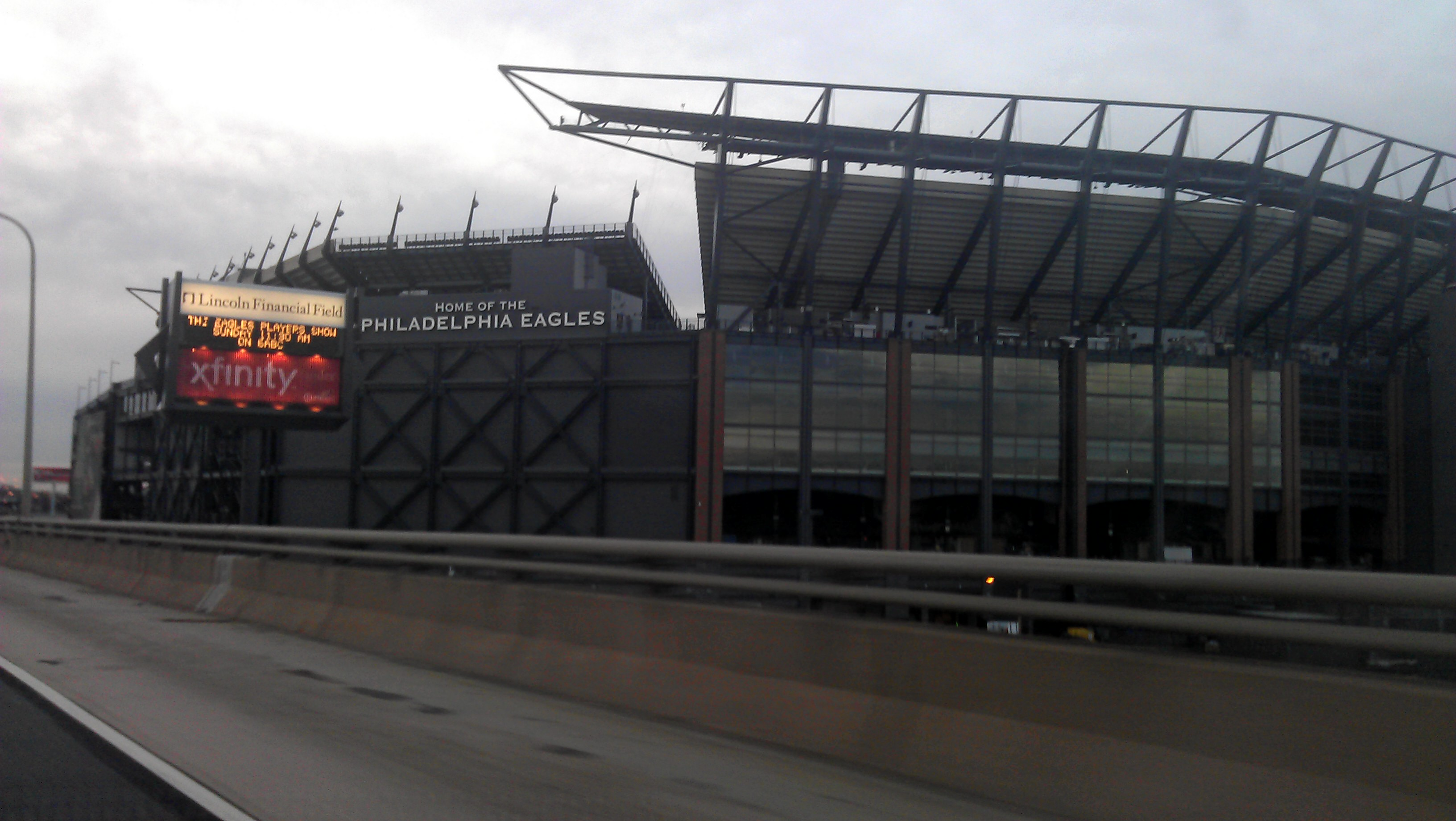 A view at Lincoln Financial Field in Philadelphia.